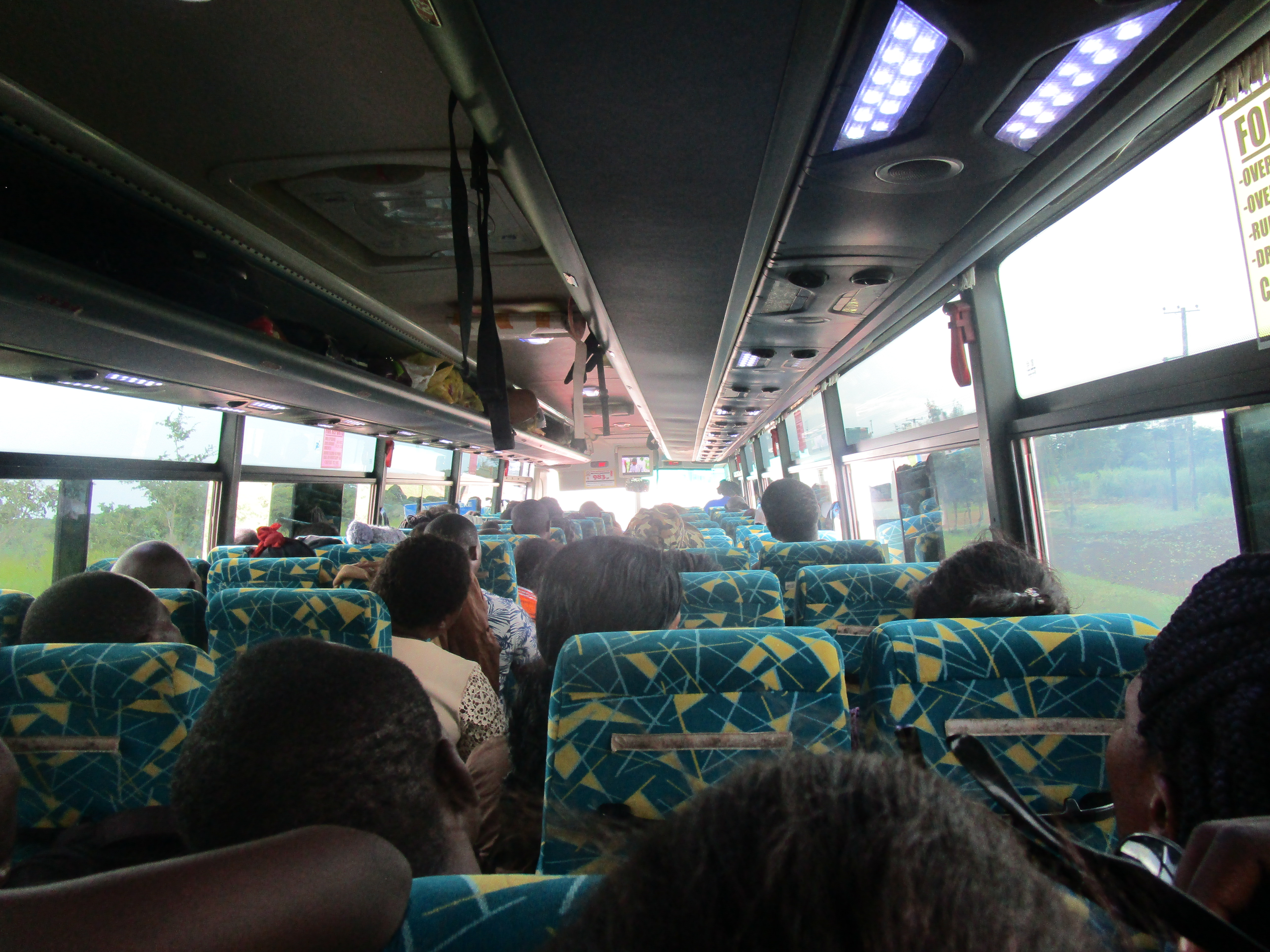 There is regular coach transport from different towns to Mbala. This is an image with the theme "Africa on the Move or Transport" from: Zambia